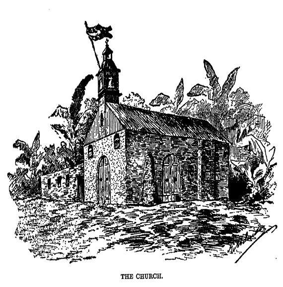 Siege church